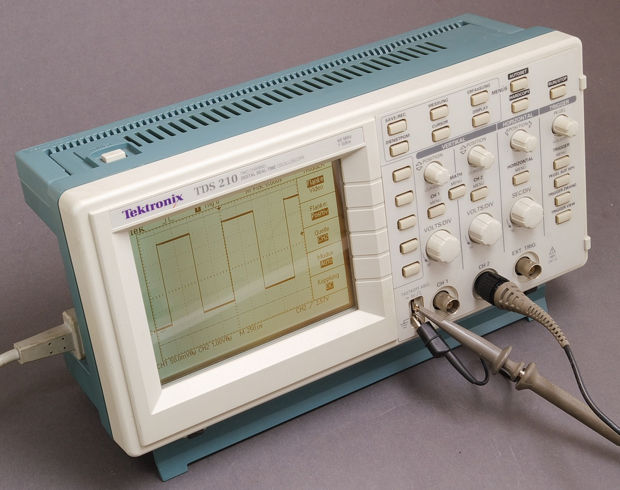 Tektronix TDS210 Digital Oscilloscope, the screen displays the calibration signal